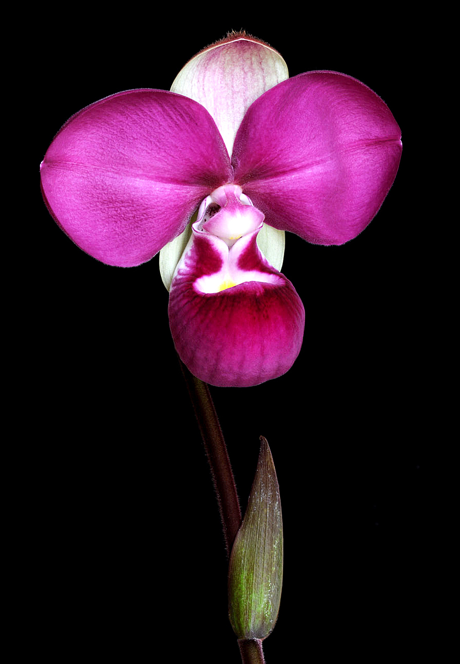 A photo of the orchid Phragmipedium kovachii, which I bought with full CITES paperwork from a commercial grower in Germany in early 2010. After 18 months it came into bloom.